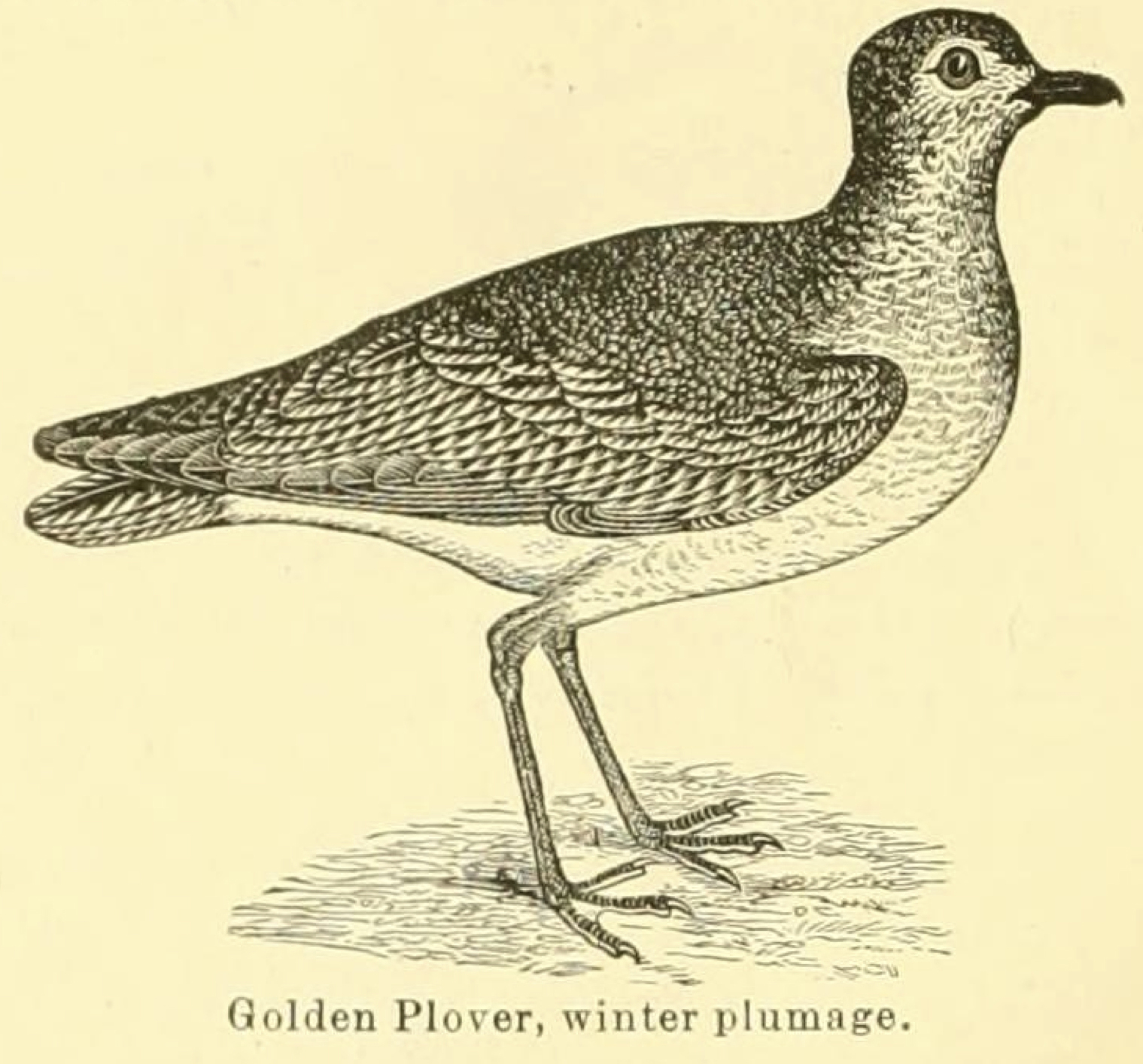 Pluvialis dominica (American Golden Plover)